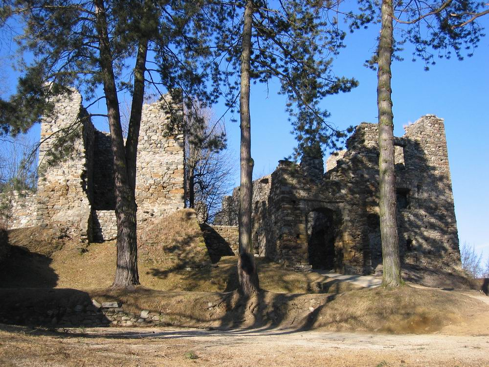 Castle ruin Gomarn on the Schlossberg of Bad Sankt Leonhard, municipality Bad Sankt Leonhard, district Wolfsberg, Carinthia / Austria / EU